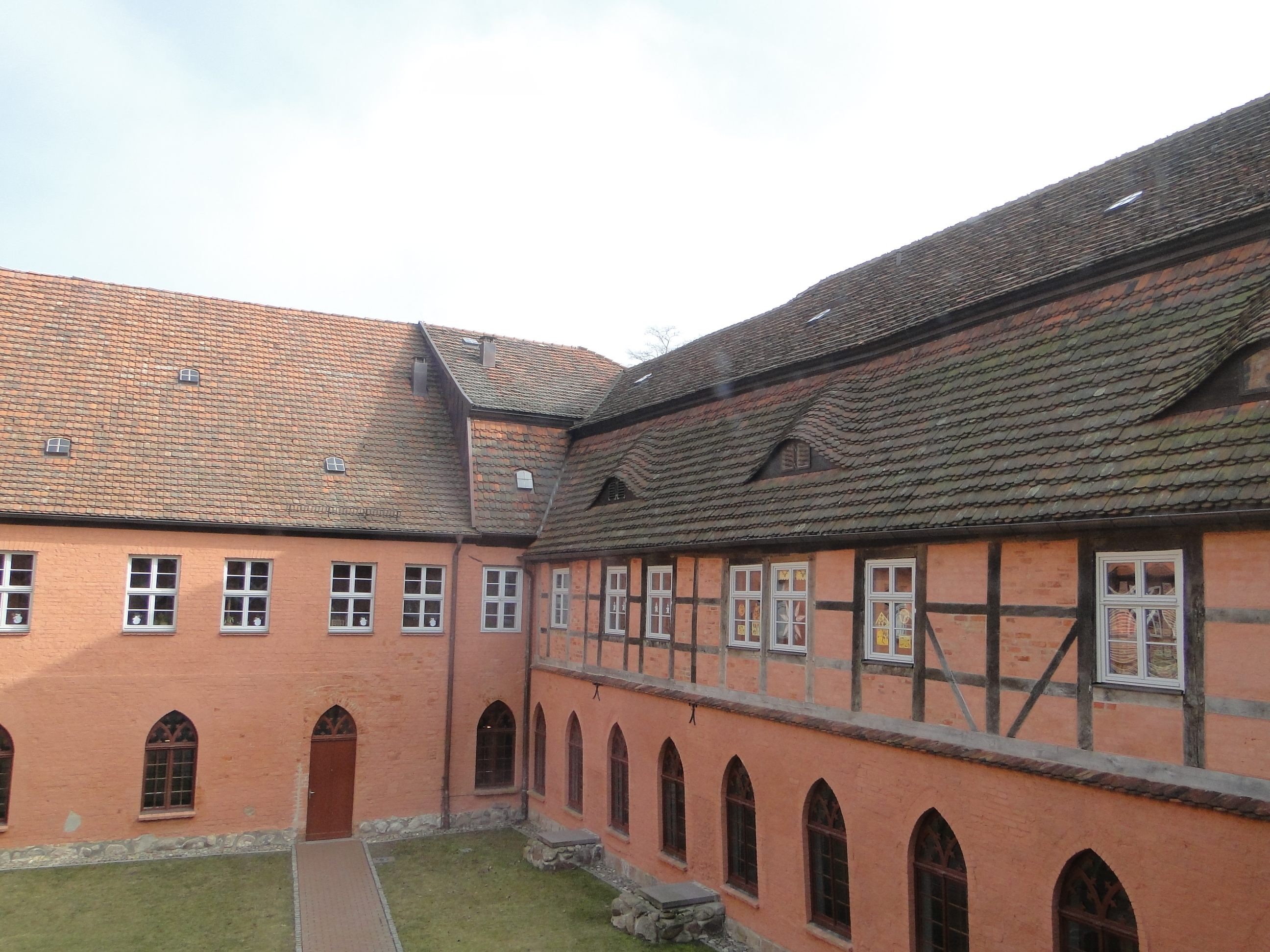 Monastery in Dobbertin, district Parchim, Mecklenburg-Vorpommern, Germany